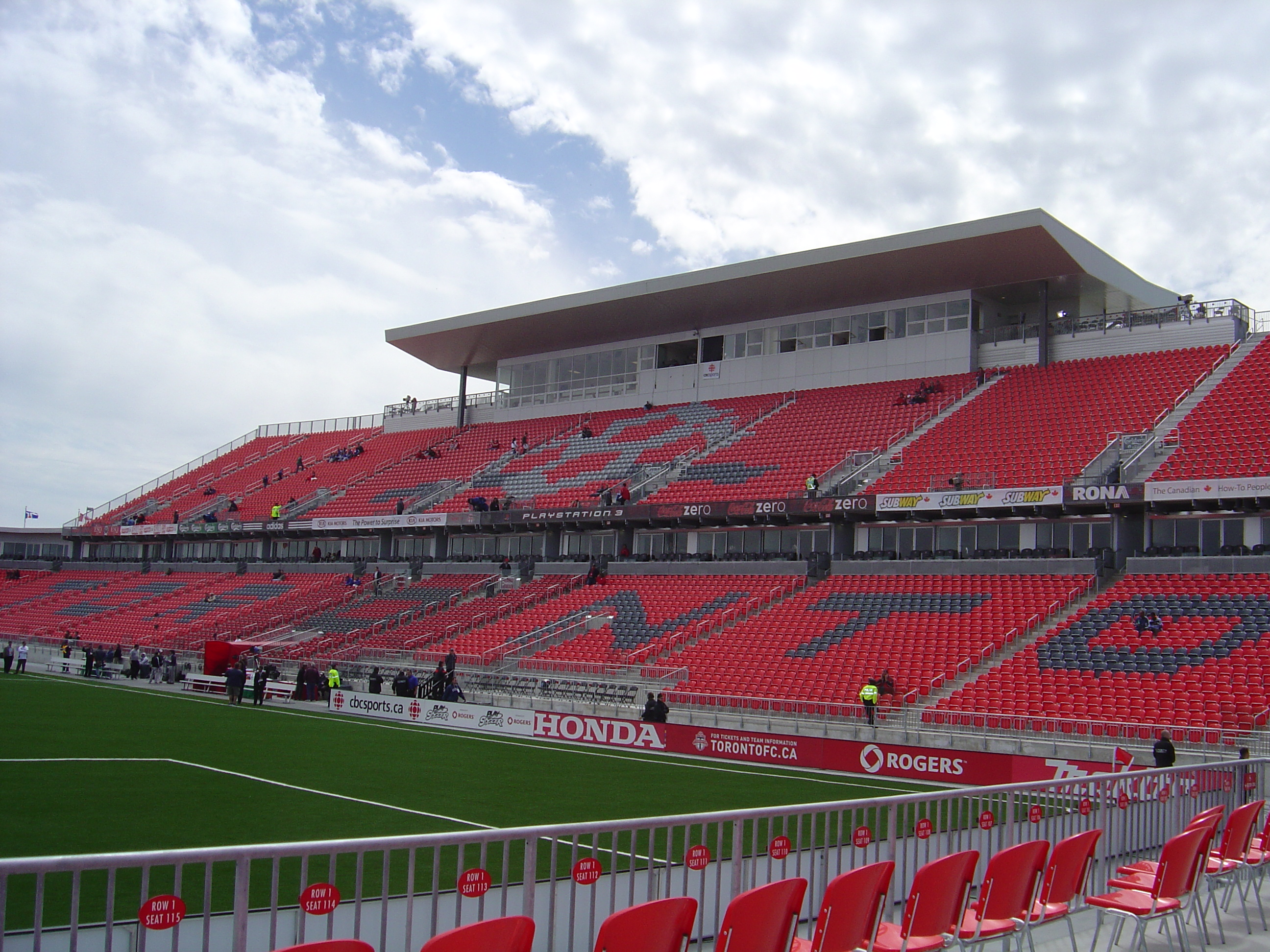 A view of the West Stand at BMO Field before a game.